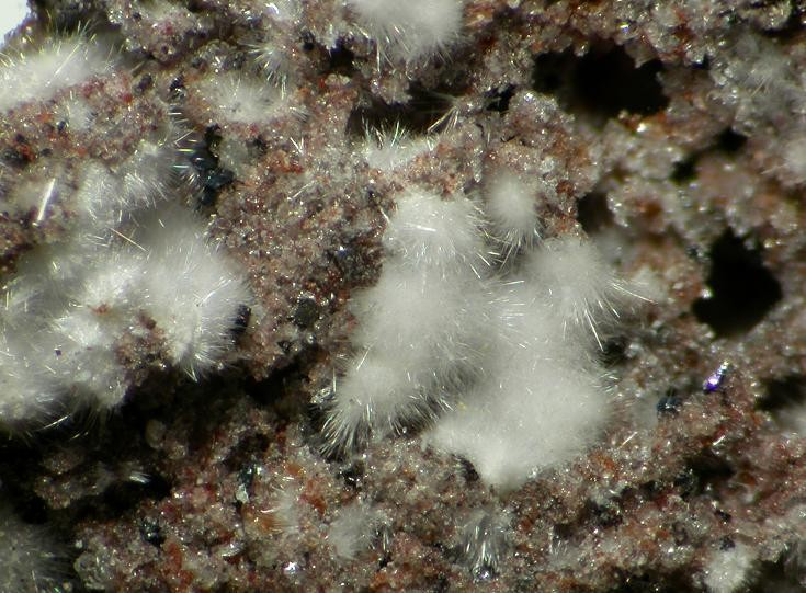 Mullite Locality: Emmelberg Mt., Üdersdorf, Daun, Eifel Mts, Rhineland-Palatinate, Germany Field of view 4 mm. Specimen and photo Leon Hupperichs.